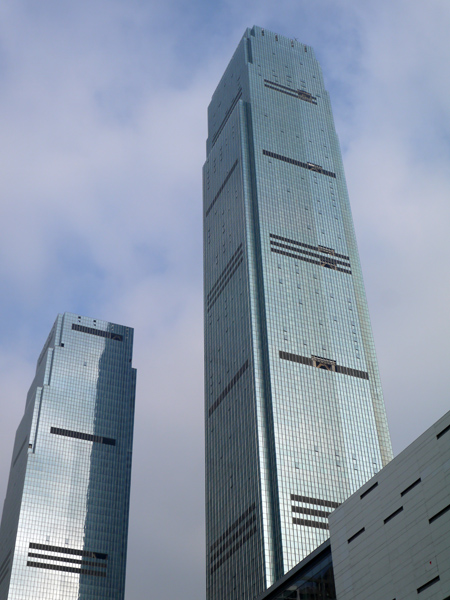 Changsha IFS Towers